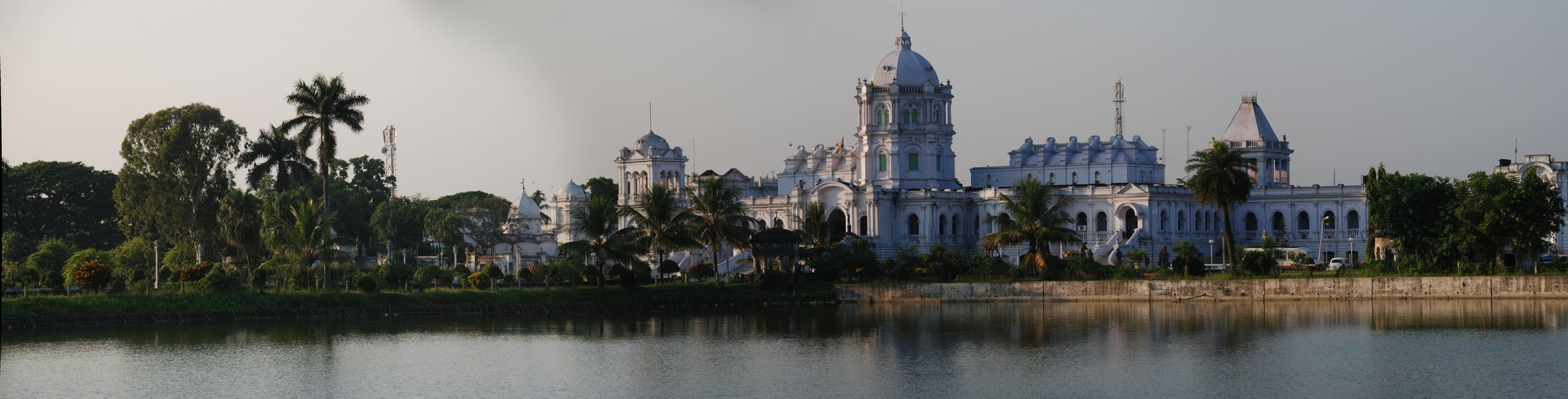 A panorama of the Ujjayanta Palace as shot from the right side.